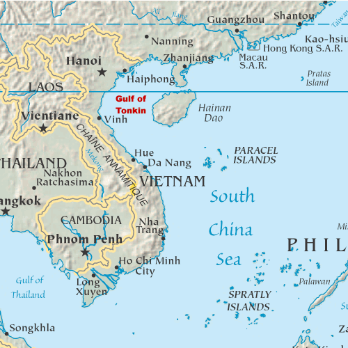 Map showing the location of the Gulf of Tonkin in the South China Sea